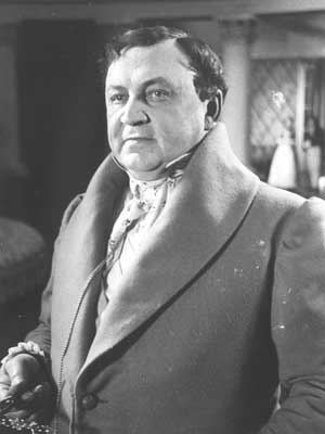 Soviet actor and director Vladimir Gardin in film Dubrovsky (1936).